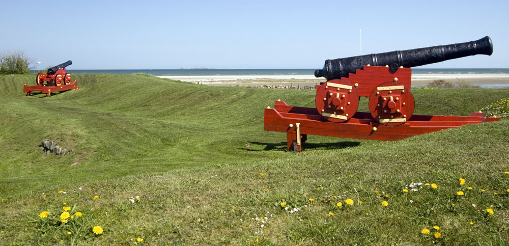 The entrenchement Nordre Skanse in Frederikshavn (build 1627-1629)